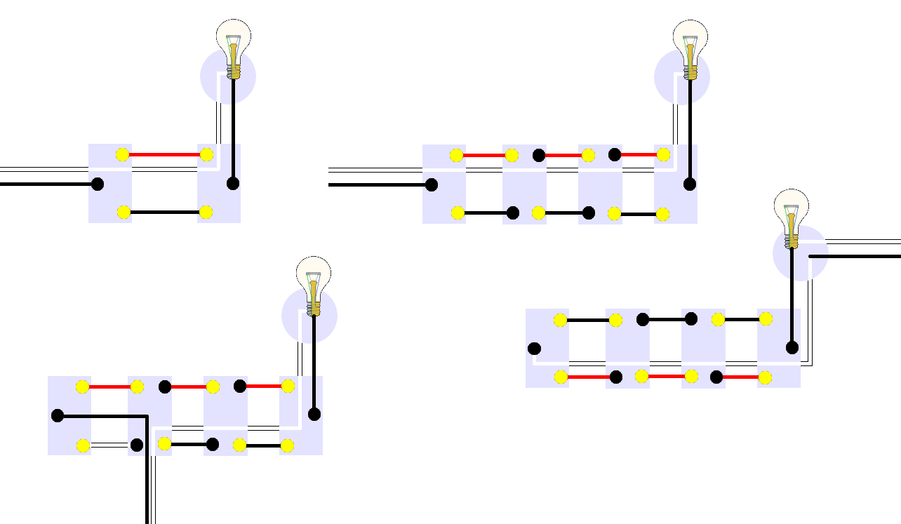 Multiway switching with 3-way and 4-way switches and mains fed to different boxes. The bond wires are not shown. Most jurisdictions require each device and box to be bonded to ground.